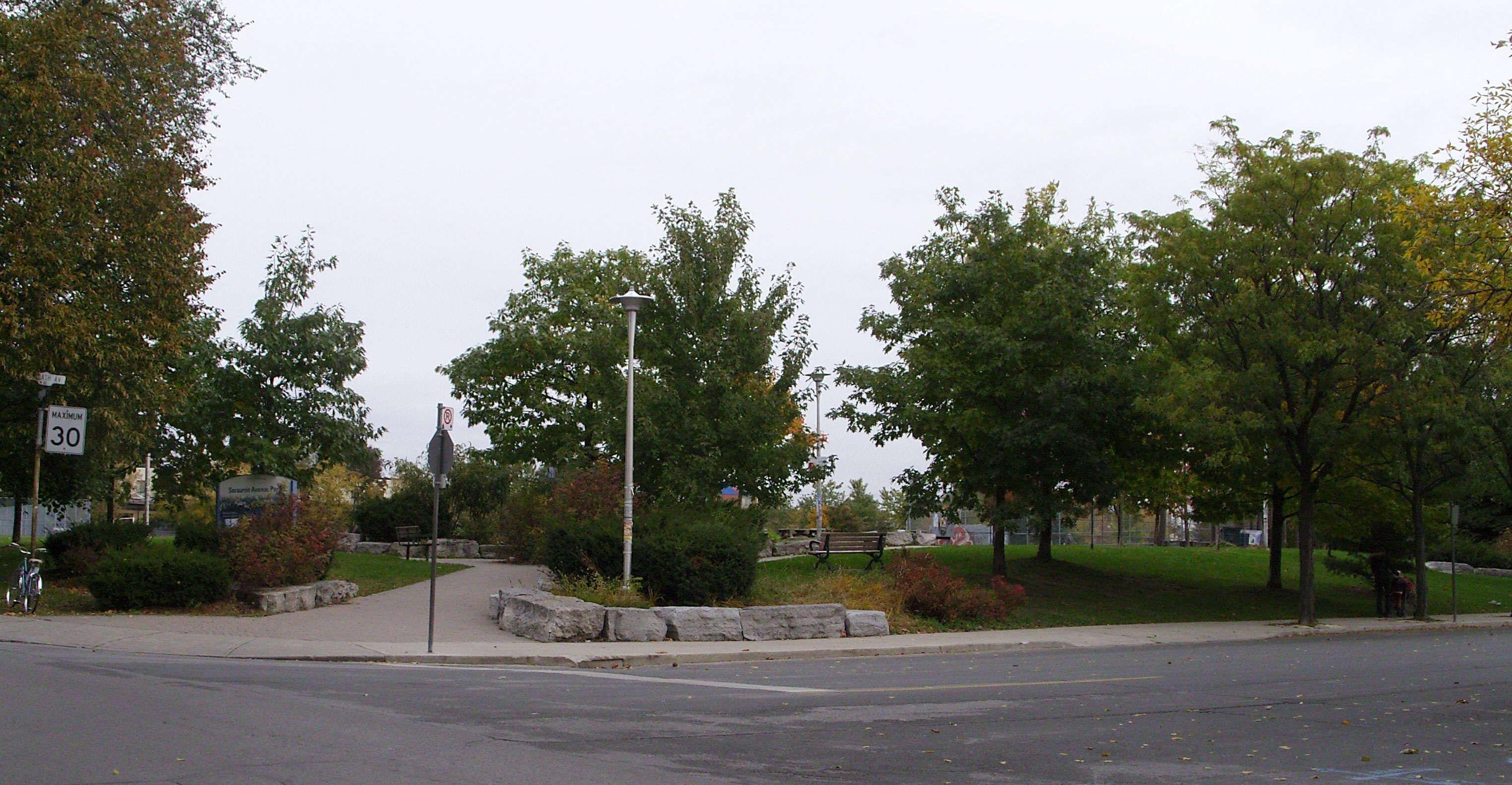 Photo of Sorauren Park